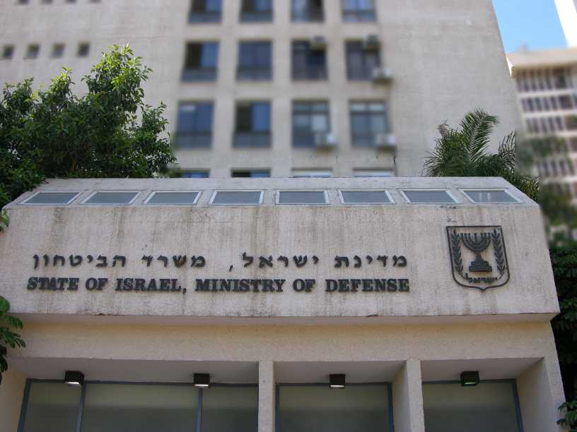 Ministry of Defense Building